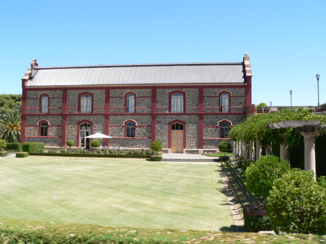 Château Tanunda's eastern wing and croquet lawn